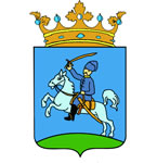 Coat of arms of Lak, Hungary